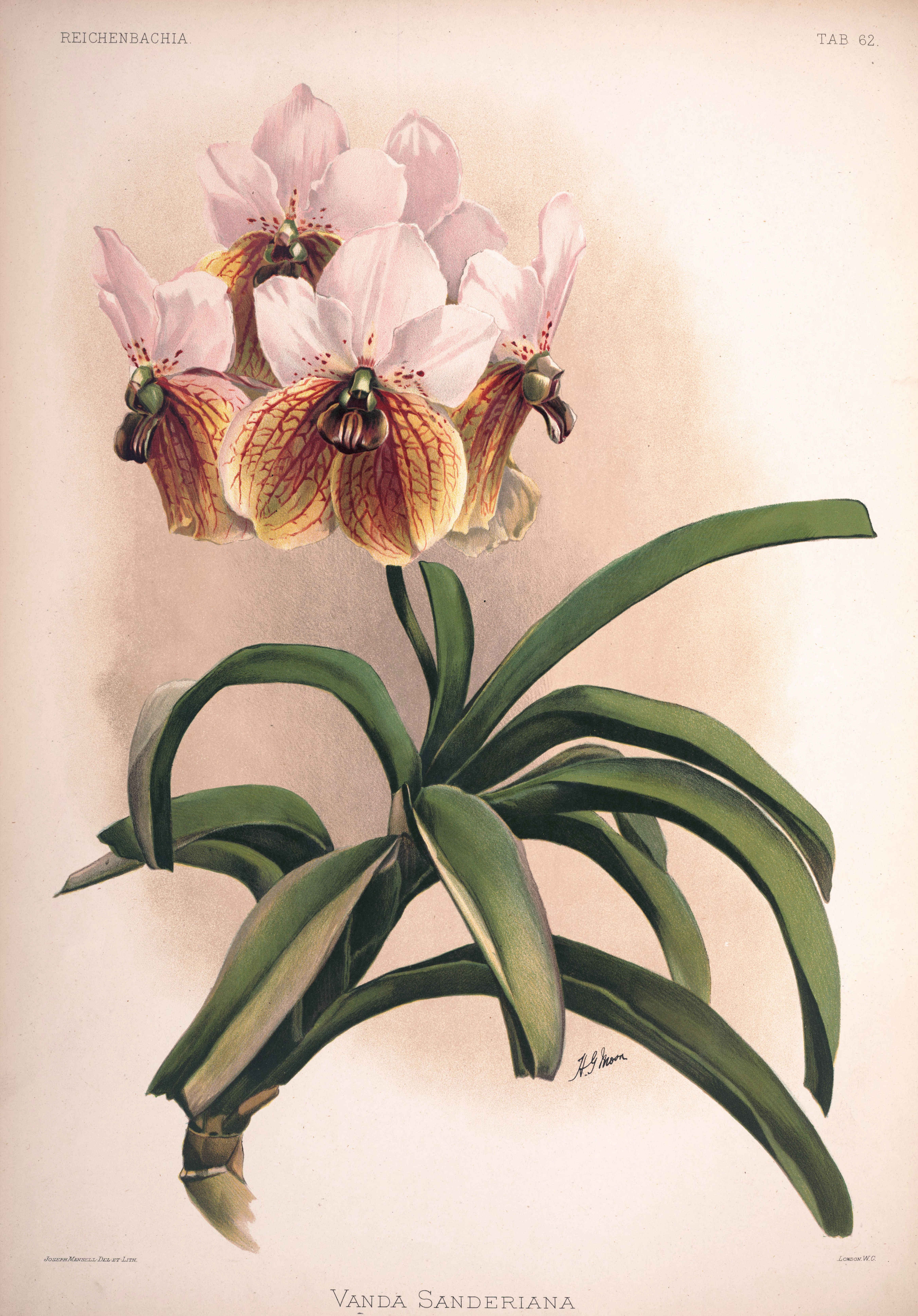 Euanthe sanderiana syn.: Vanda sanderiana